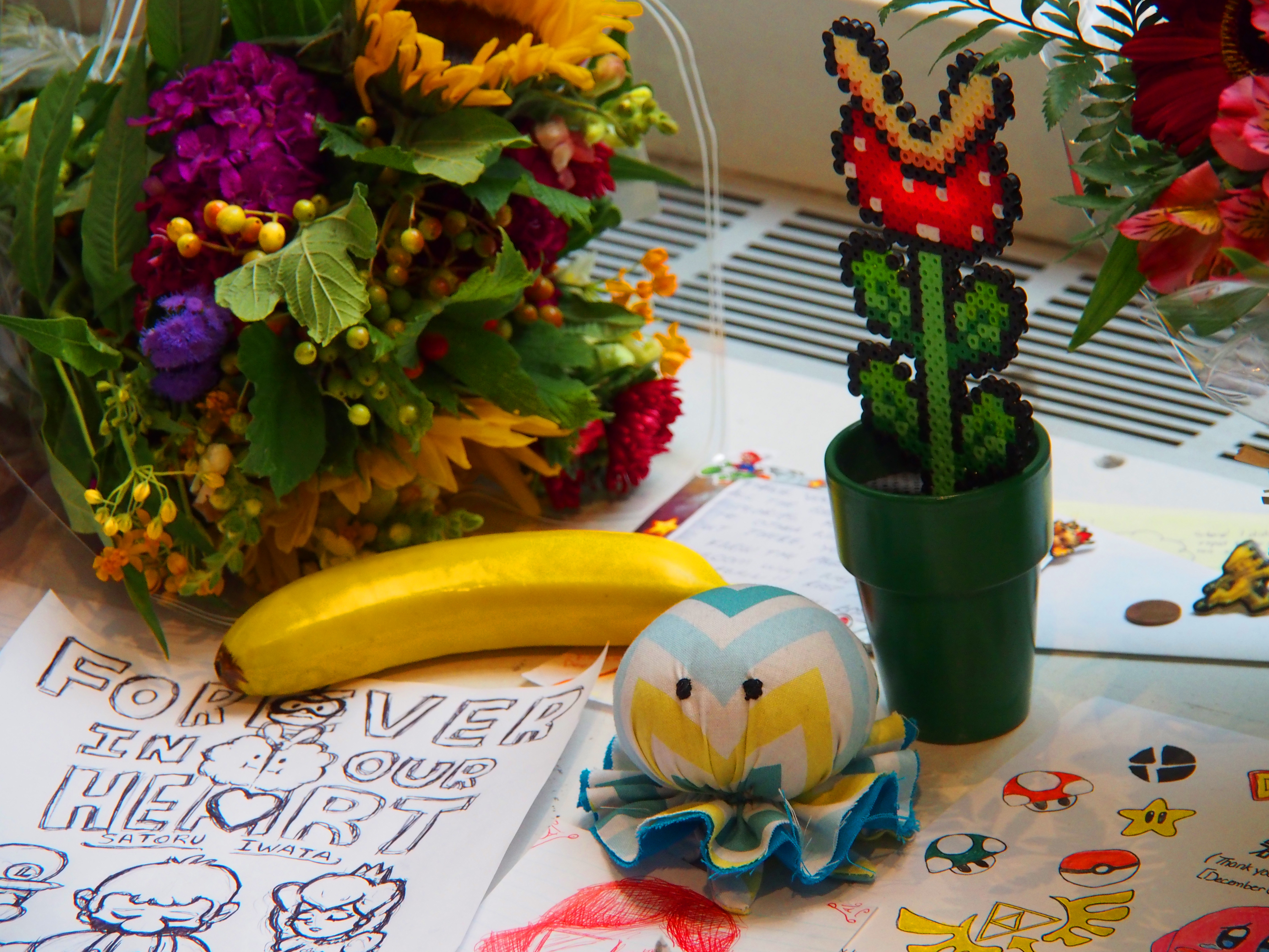 "A close up shot of the tribute to Iwata, left by the many fans of his work. The Nintendo World Store in NYC has set a special spot aside for those who wanted to pay tribute."